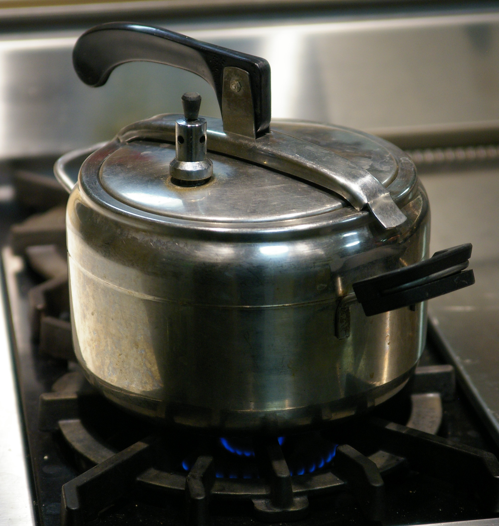 A pressure cooker with a simple regulator and an oval lid. The lid is larger than the hole, so it has to be rotated and tilted to fit in the hole, and then pressure from inside holds it up. The safety pressure release is a rubber plug under the bar holding the lid up.